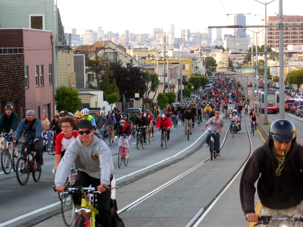 Critical Mass and Muni Metro in San Francisco on San Jose Avenue near 30th Street in 2005